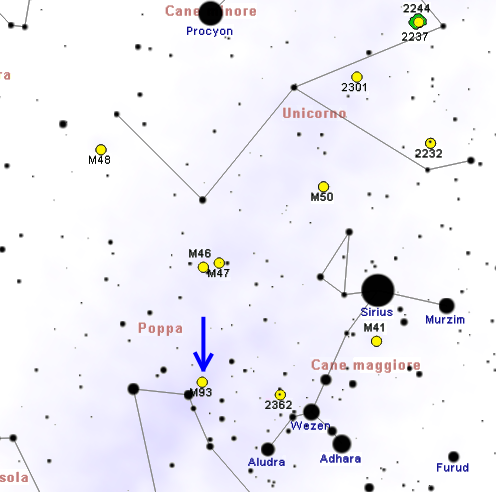 M93